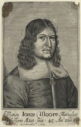 Engraving of Sir Jonas Moore.